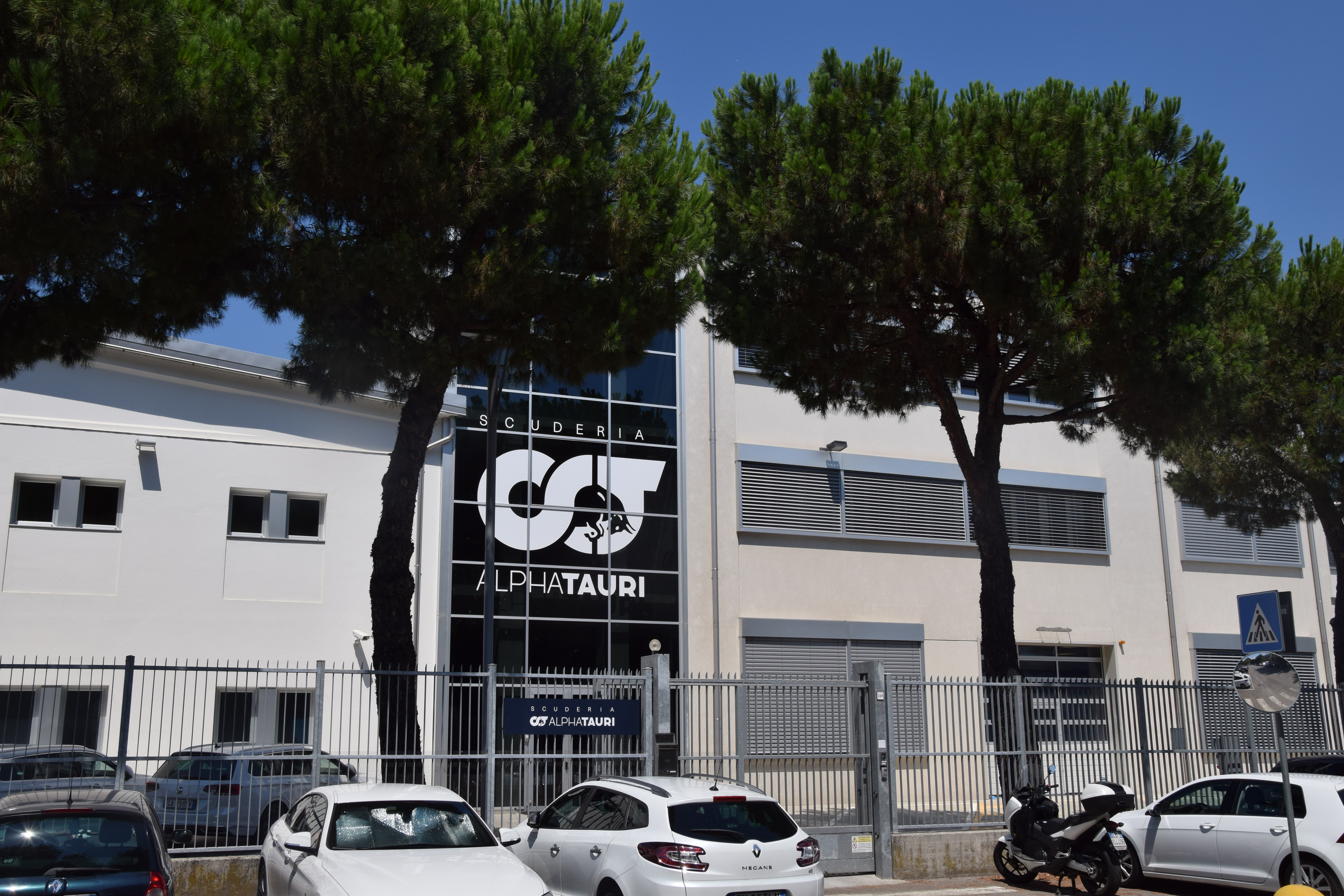 Headquarter of Scuderia AlphaTauri in Faenza, Italy (2020)